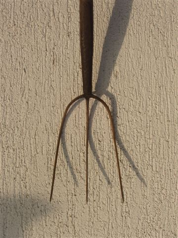 A pitchfork